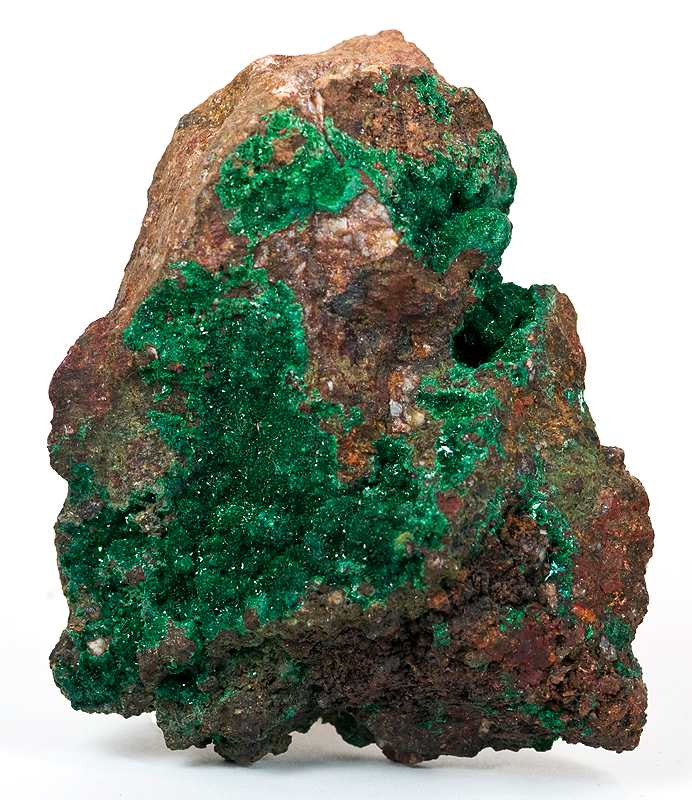 Chalcophyllite Locality: Mananna, 10m N.E. of Ouro Preto, Minas Gerais, Brazil Size: small cabinet, 7.9 x 6.3 x 3.1 cm Chalcophyllite I would never have imagined this copper species from this gem mining district but here we have a rather specific locality given, too! This specimen of drusy crystallized chalcophyllite is a rarity: the only one I have handled from Brazil. Although the crystals are small it is overall a pretty, sparkling specimen with lots of color coverag. After consulting a few others, I could not find any specimens of this material elsewhere for comparison. However, I have no doubt it is legitimate. It is simply too strange to make up and every now and then, we do get some copper mineralization in Brazil turn up - though it is rare.